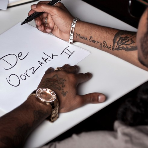 De Oorzaak deel II